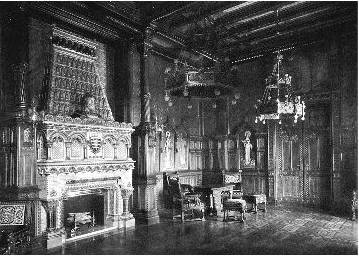 St Stephen's Room in the Royal Castle of Budapest.